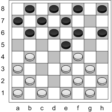 Position in opening Обратная городская партия (Obratnaya gorodskaya partiya) in russian checkers